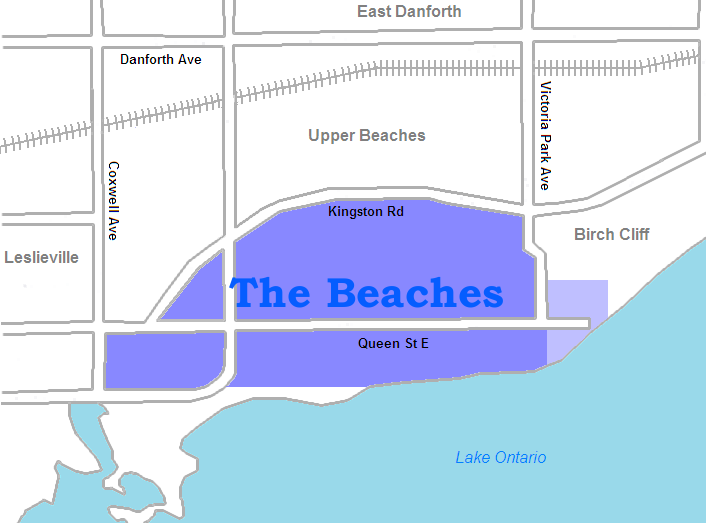 map of the Beaches